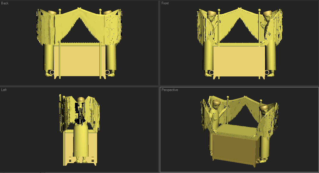 3d model of the Ark of the Covenant, based on the sketch by Dr. J.O. Kinnaman, founder of the Ethiopian Natural Museum.